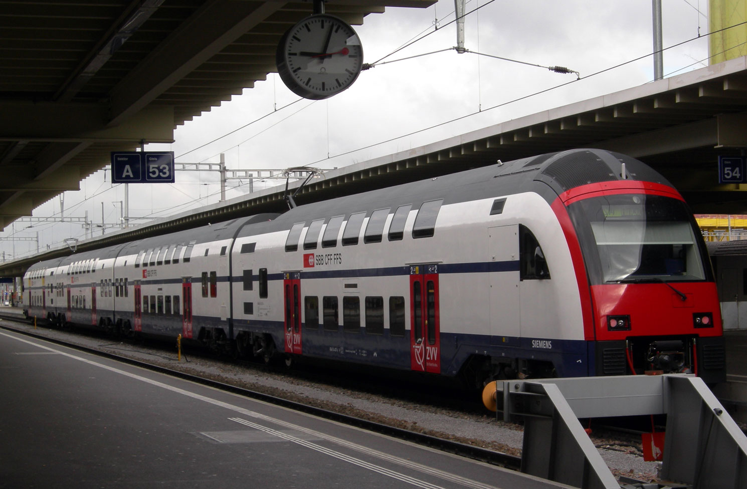 Multiple unit train class RABe 514 (Siemens Desiro) of the Zurich rapid transit system